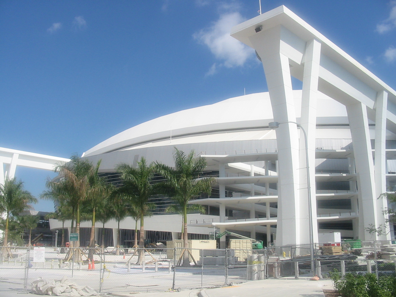 Marlins Stadium under construction, January 2012.